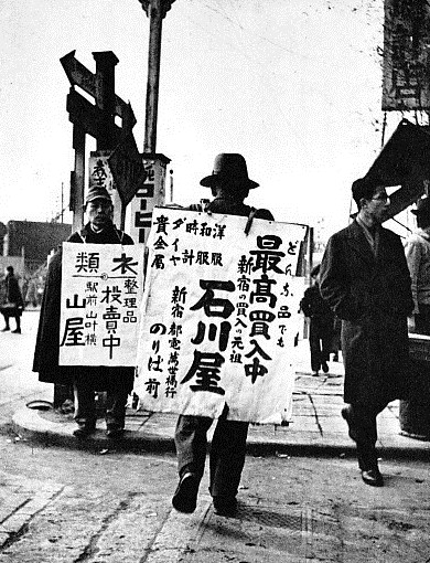 Human billboard in Japan circa 1949